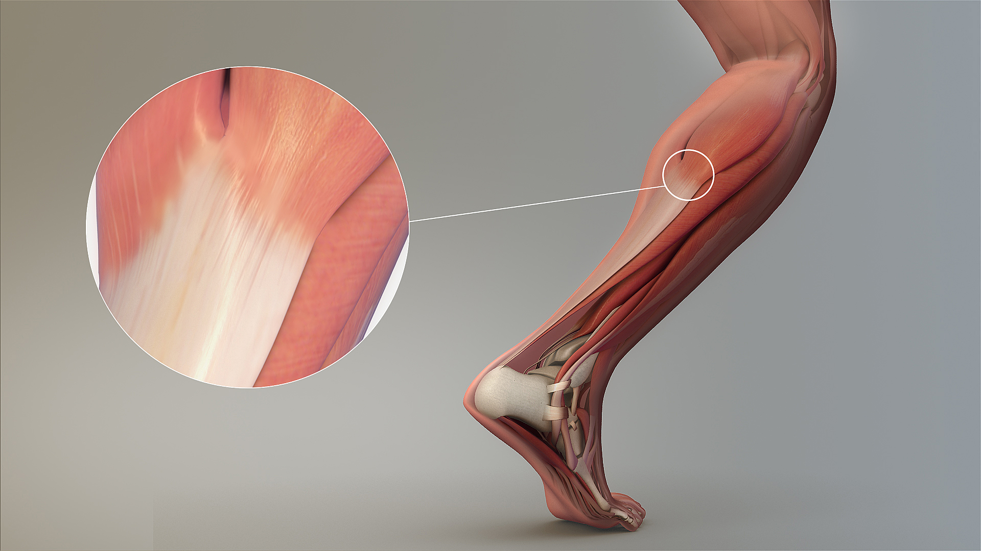 Tendons connect bones to muscles and help in stable movement.